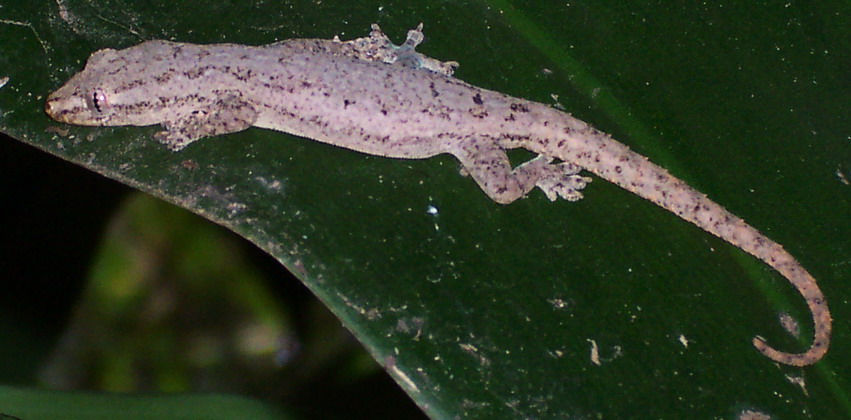 House gecko Hemidactylus frenatus, from Situgede, Bogor, West Java, Indonesia